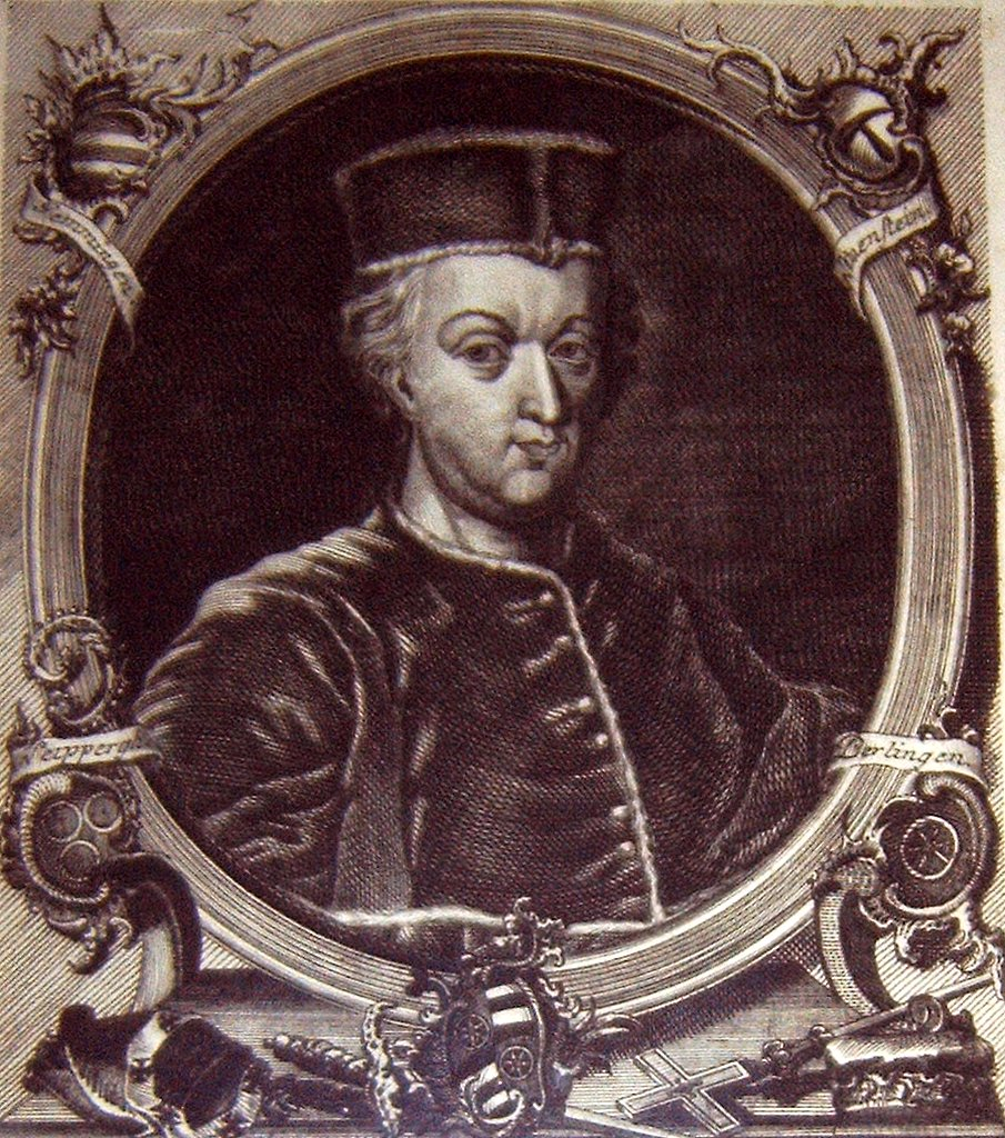 Print of Uriel von Gemmingen